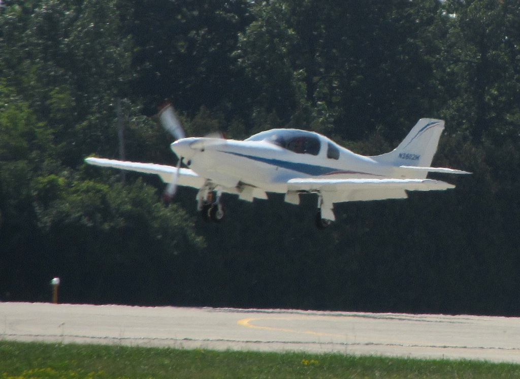 Lancair 360 MK II Landing